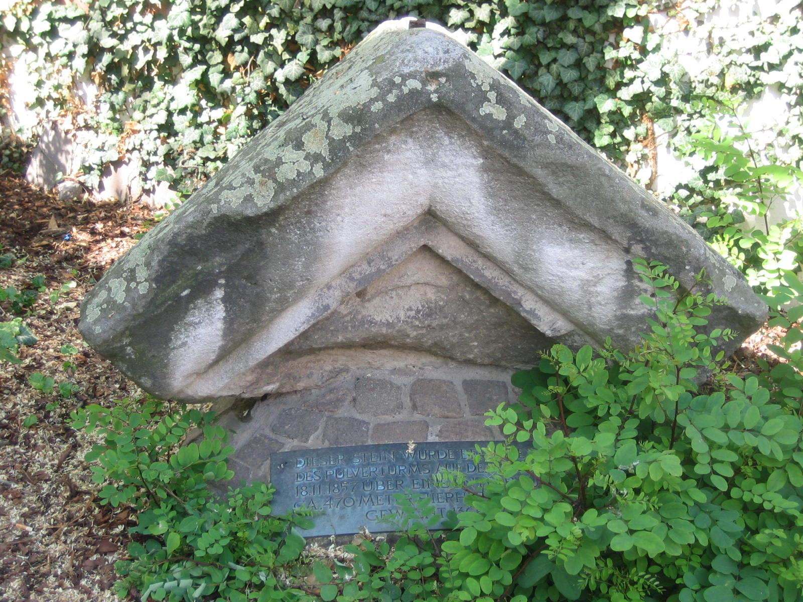 Gablestone of the powder tower Mainz, destroyed by explosion in 1857